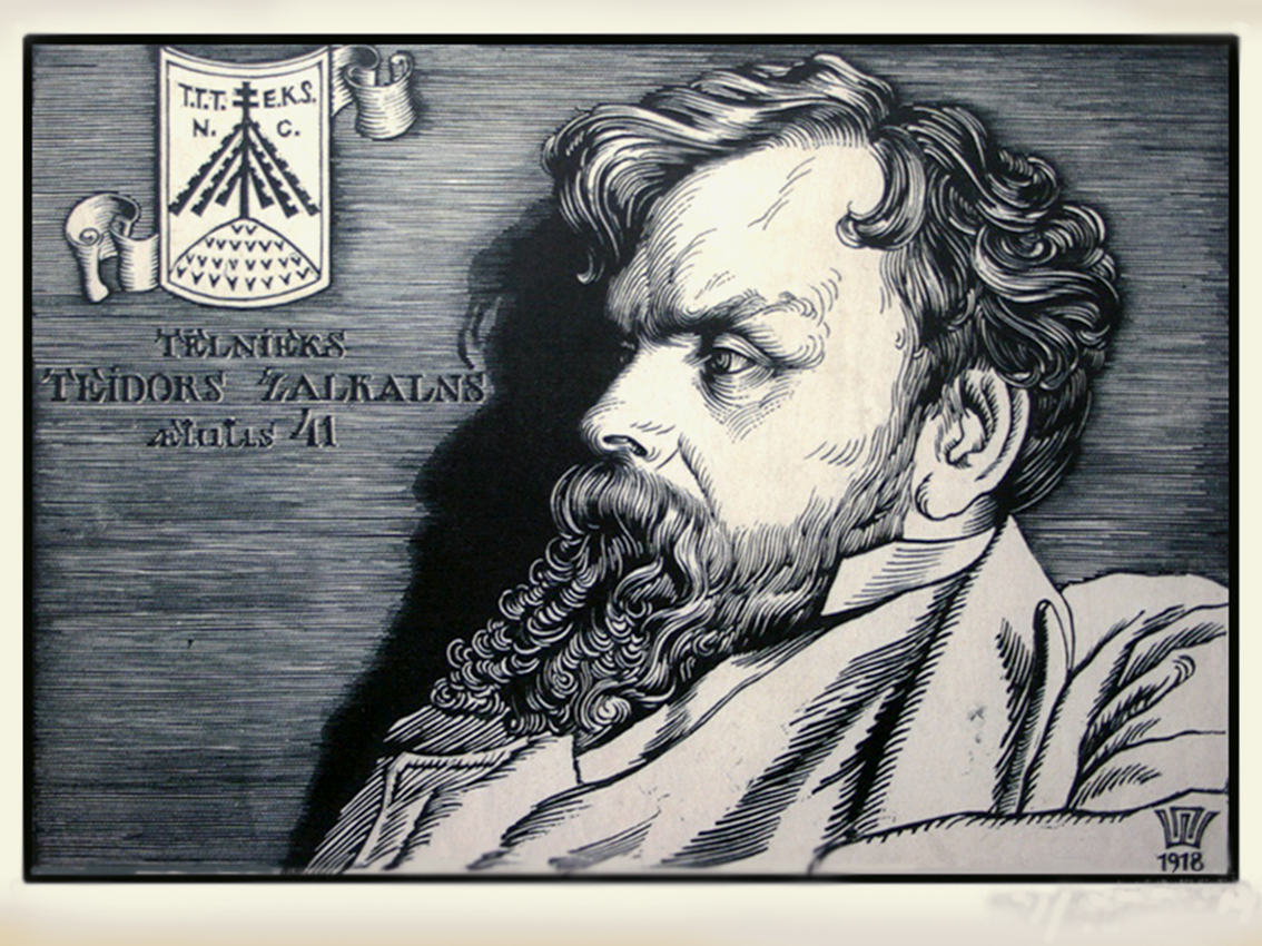 Pavel Shillingovsky. Portrait of Teodor Eduardovich Zalkaln. 1918.